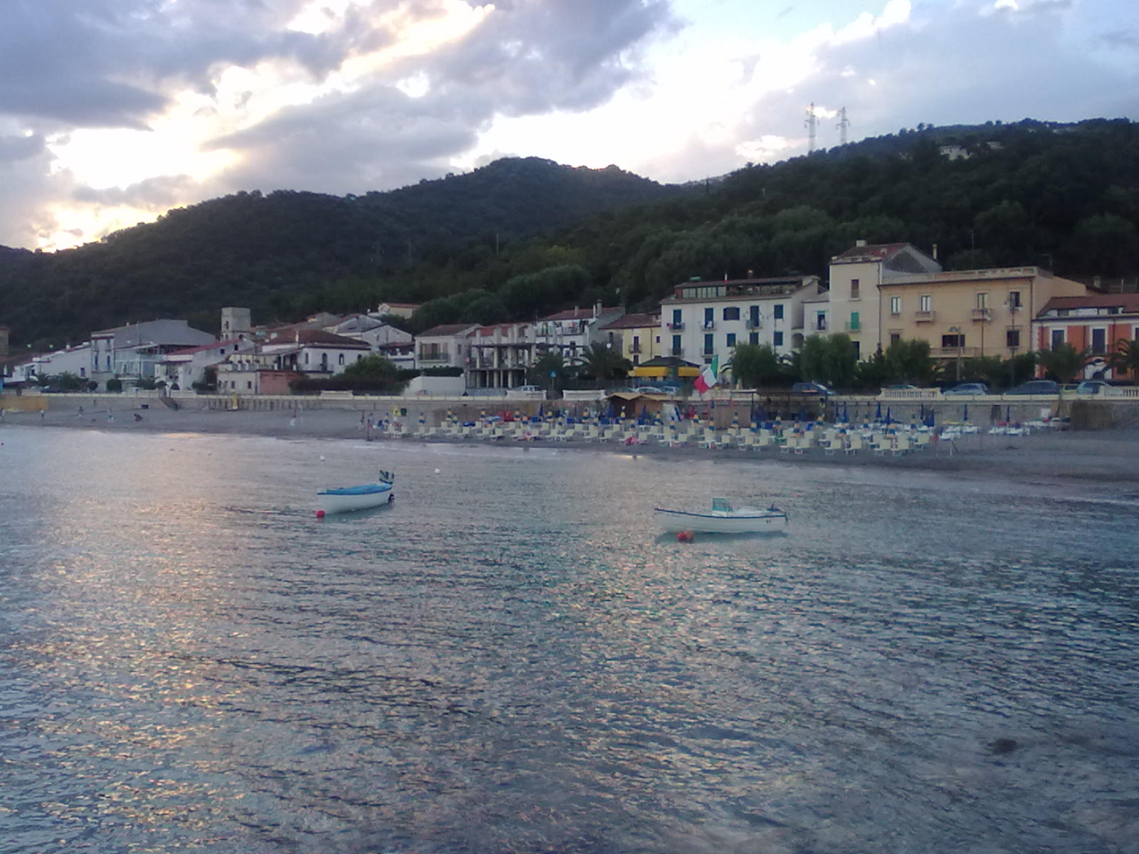 View of Capitello near Ispani